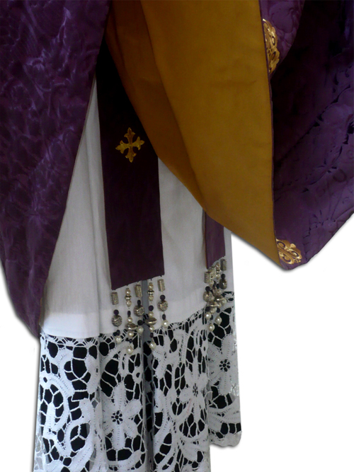 Priest stole